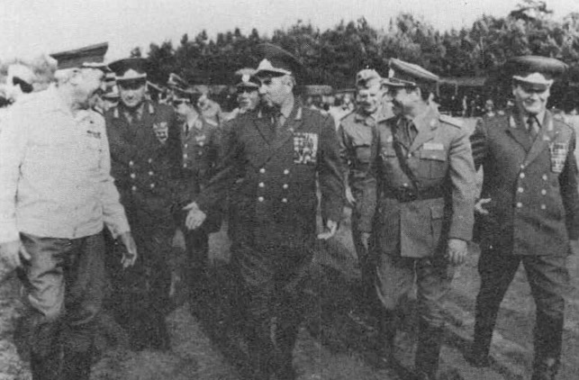 1980. Marshal of the Soviet Union Victor Kulikov, Commander-in-Chief of Warsaw Pact forces (center), at joint maneuvers in East Germany. Photo from the booklet "CIA Analysis of the Warsaw Pact Forces: The Importance of Clandestine Reporting." For more information, visit the CIA's Historical Collections page (